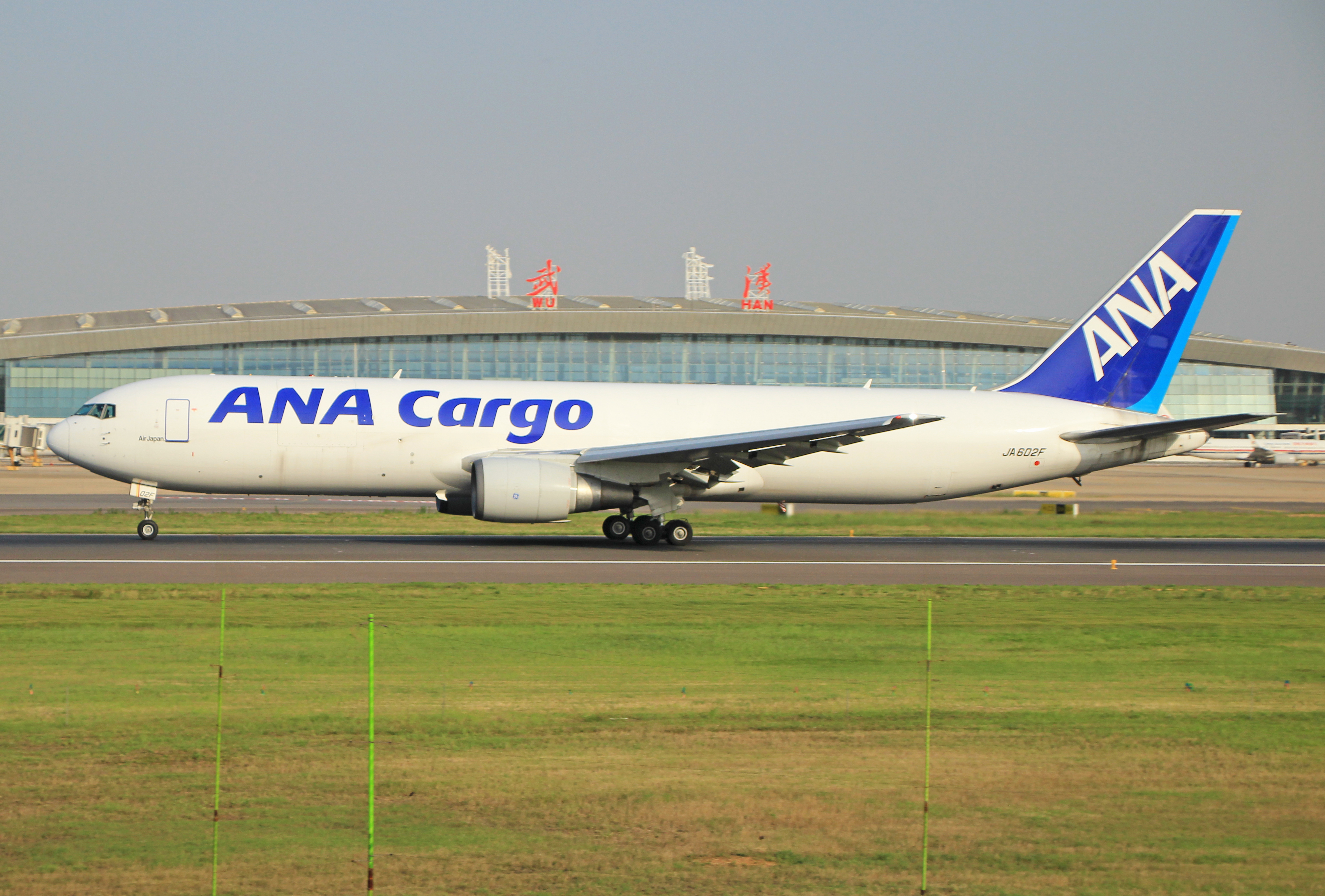 ANA Cargo departing from WUH on 19th May 2020